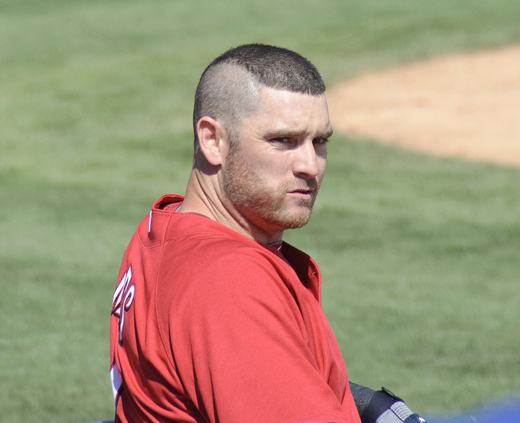 Jonny Gomes in 2010 spring training.